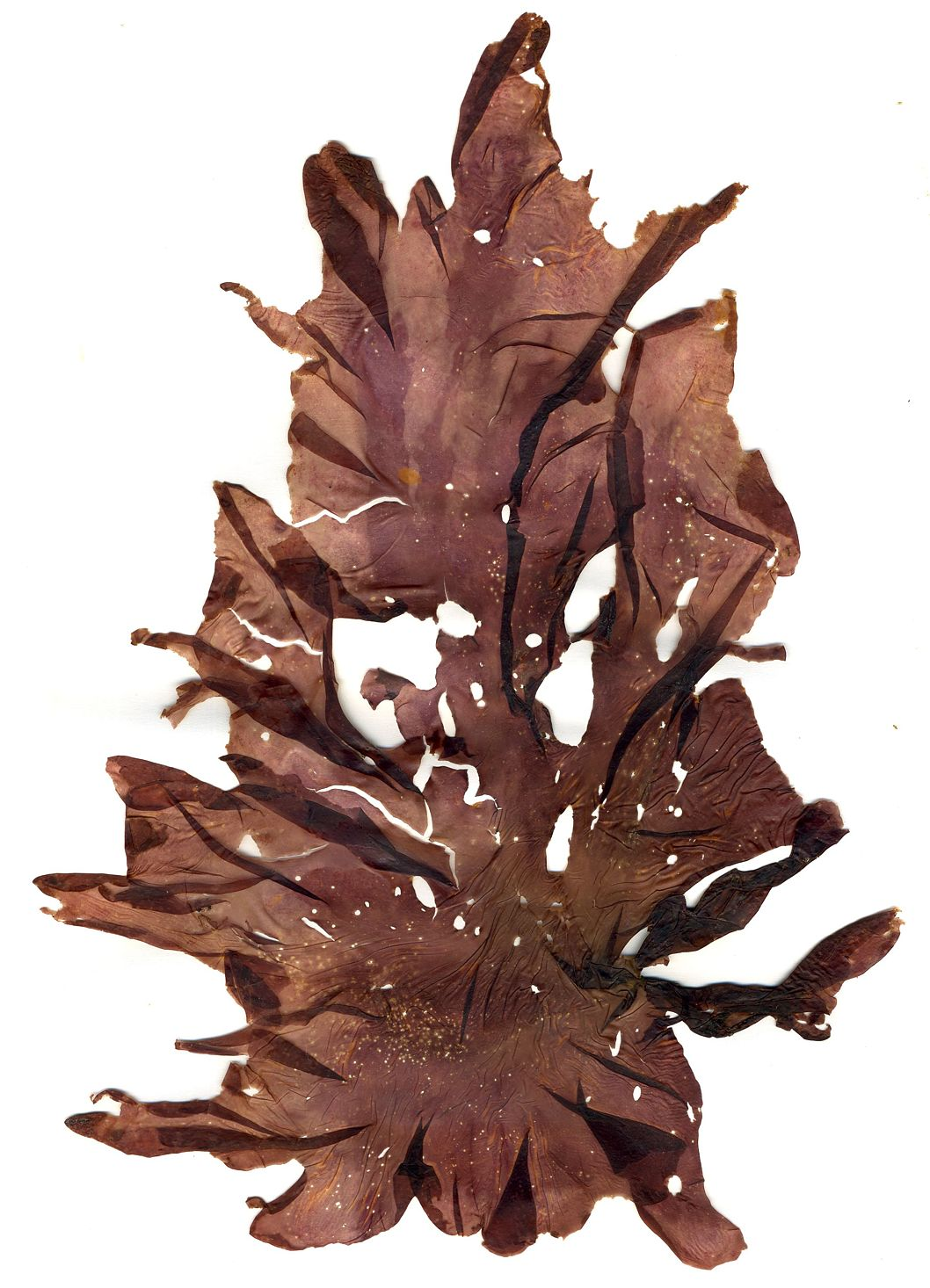 Porphyra umbilicalis (L.) J.Ag., herbarium sheet. Collected 1989-08-08, Heligoland (Germany), upper litoral.